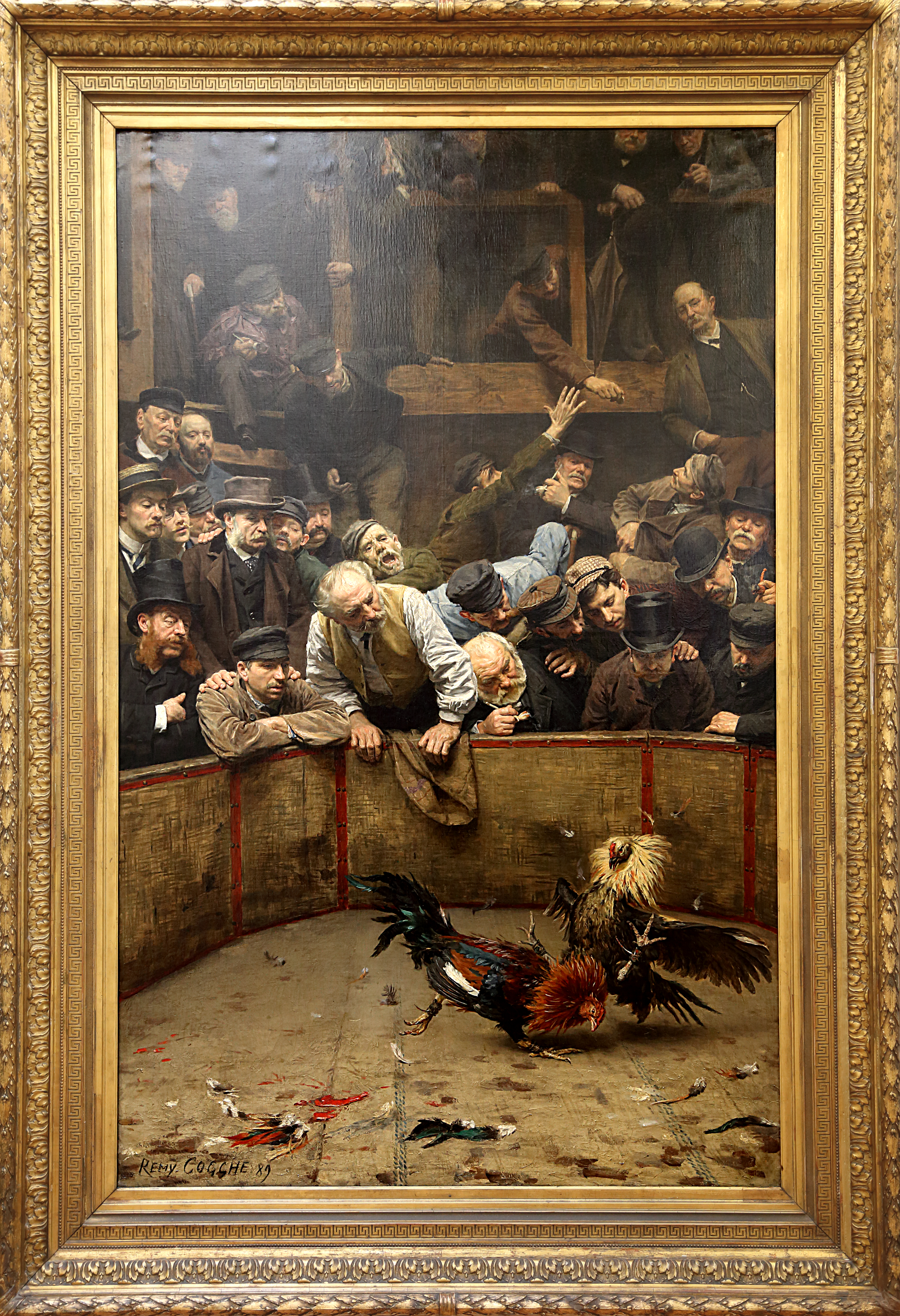 Rémy Coggghe, Cockfighting in Flanders (1889), oil on canvas (1,26 m x 2,06 m). Picture taken in the museum « La Piscine » of Roubaix, France.